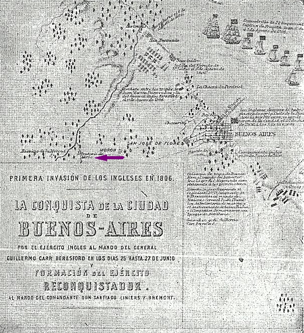 Mapa de 1806 en donde de ubica al pueblo de Merlo como Oratorio de Merlo.